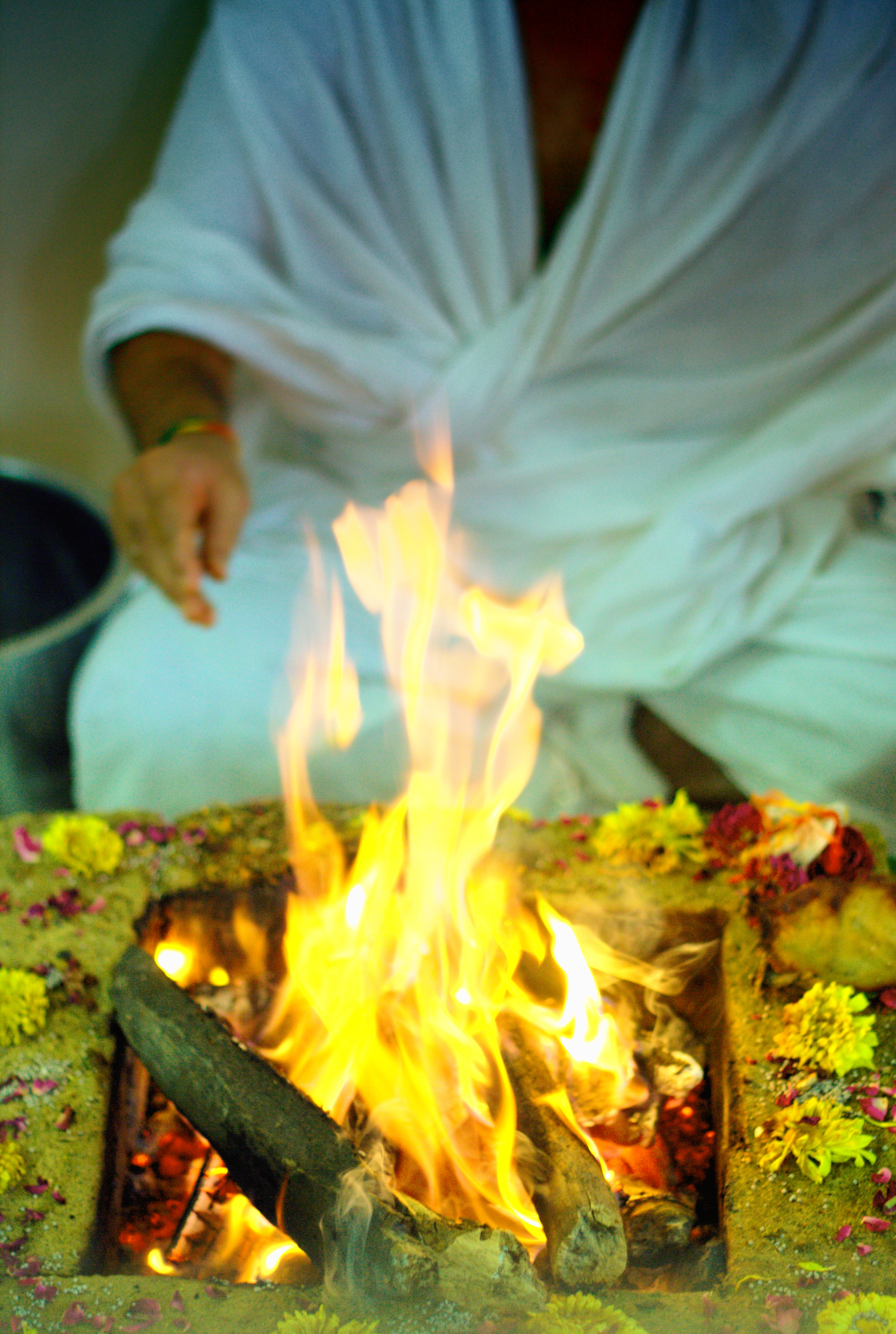 Havanam (also Havana, Havan) is the term for a sacred purifying ritual (yajna) in Hinduism that involves a fire ceremony.